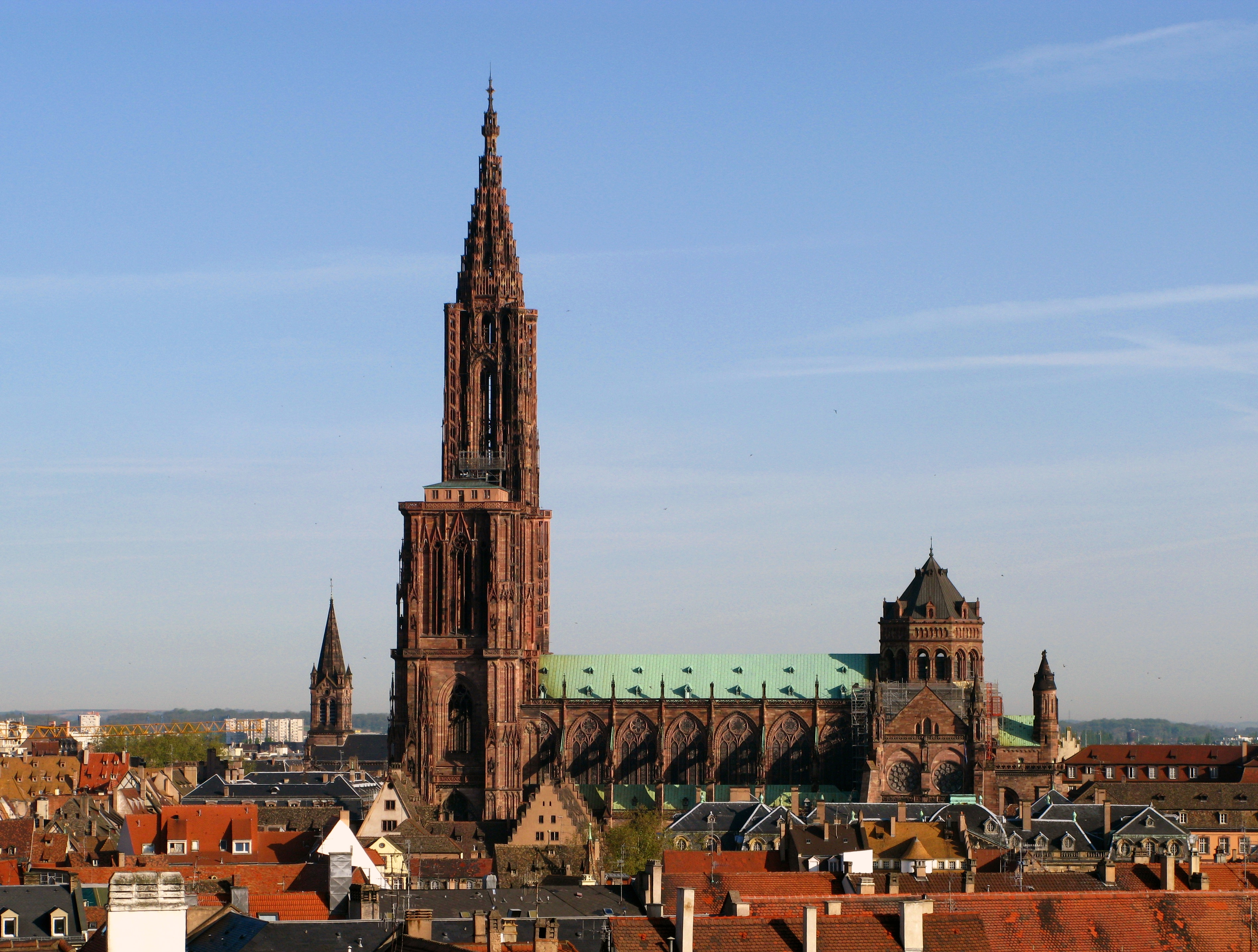 The Cathedral of Notre Dame in Strasbourg, France